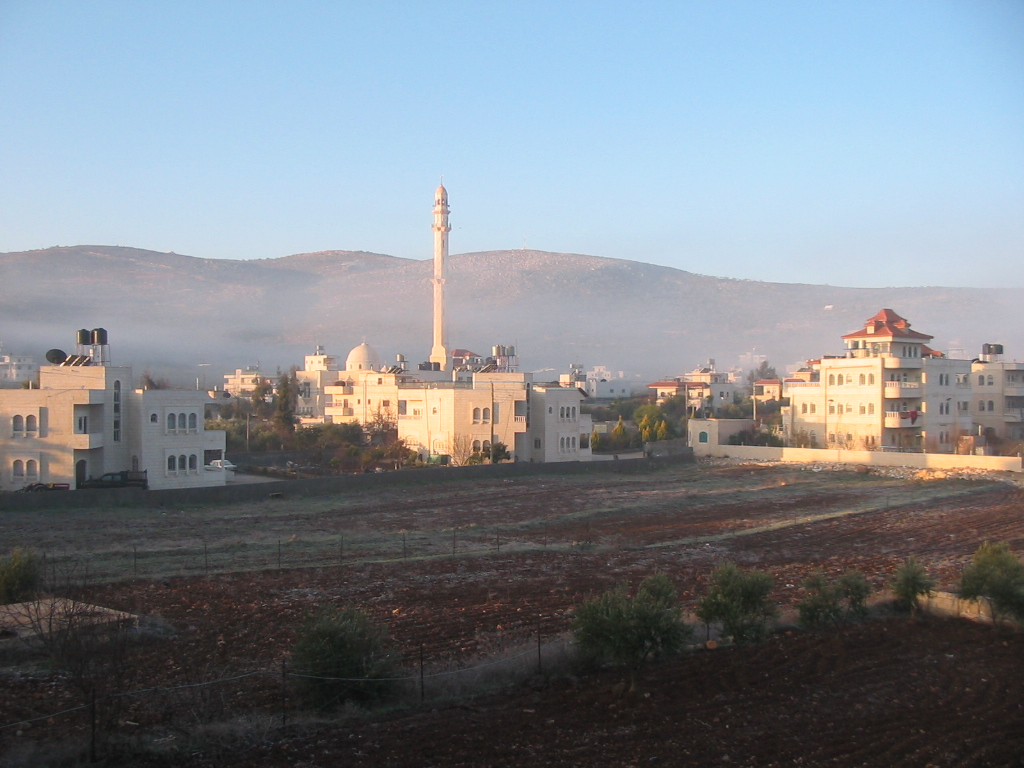 This picture was taken by me. it is not licensed nor copyrighted. it is not available on any websites. picture gives a view of the town. (Turmus Ayya, West Bank)